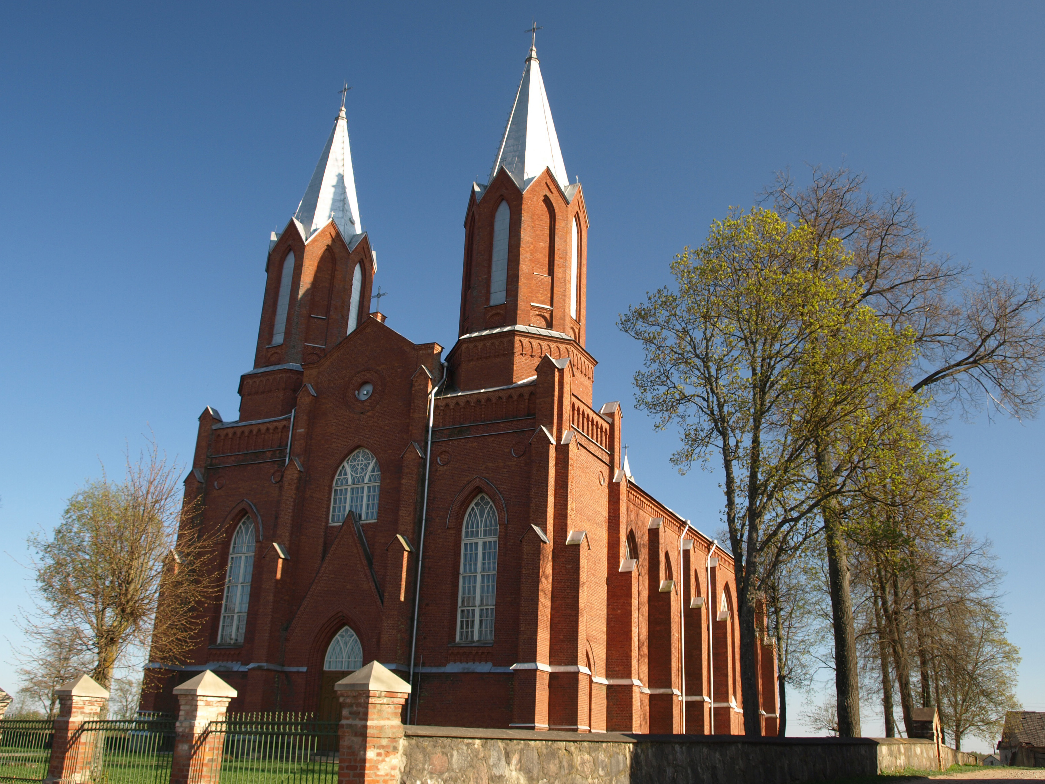 Tverecius church